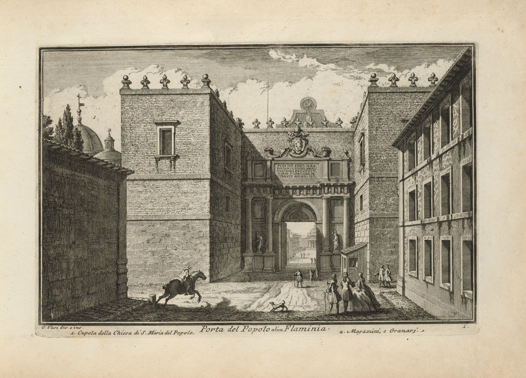 Illustration from Delle magnificenze di Roma antica e modern, Roma: 1747, by Giuseppe Vasi (1710-1782). Depicts "Porta del Popolo olim Flaminia." Ital 4300.3*, Houghton Library, Harvard University